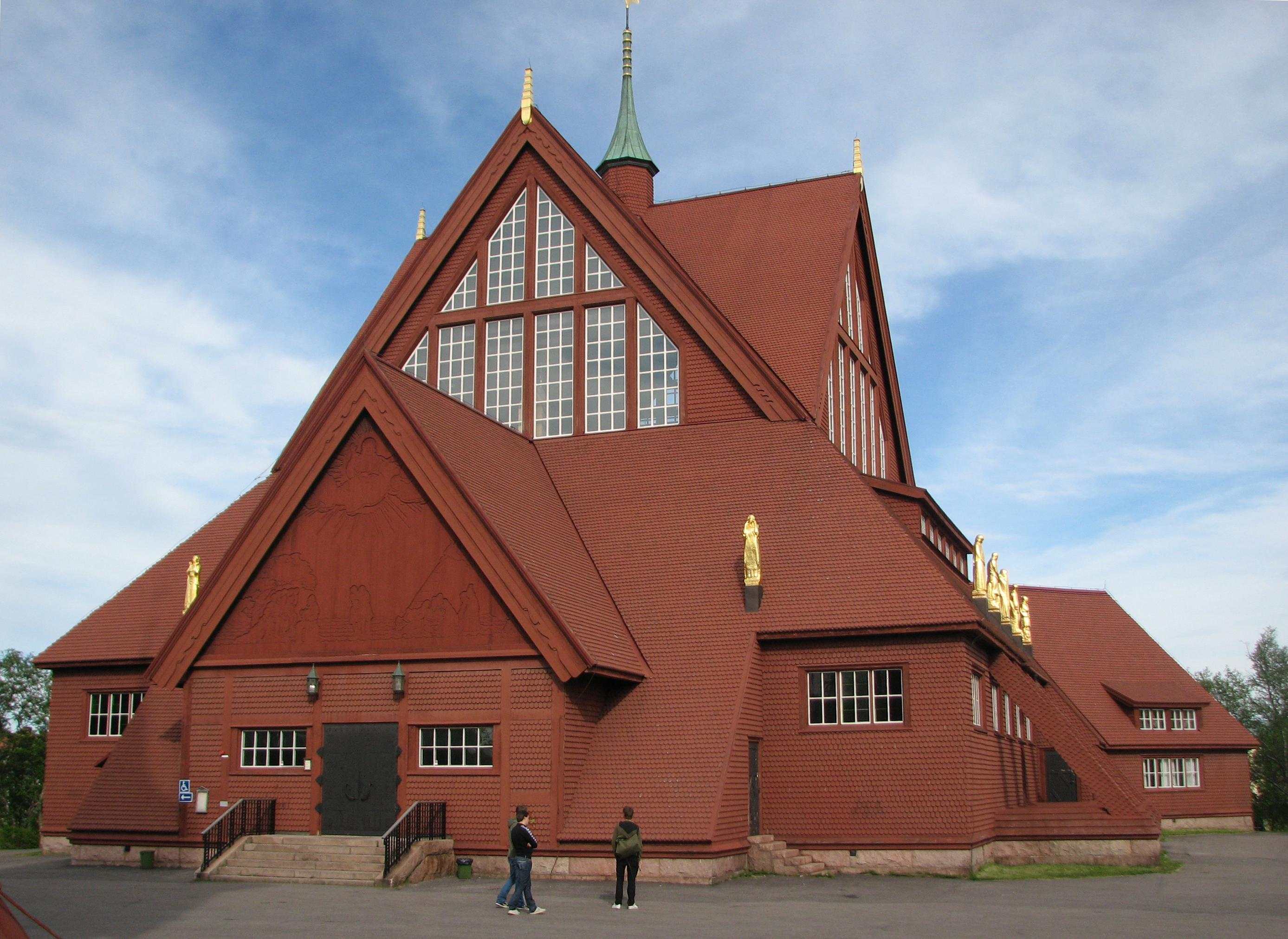 Kiruna church, Sweden